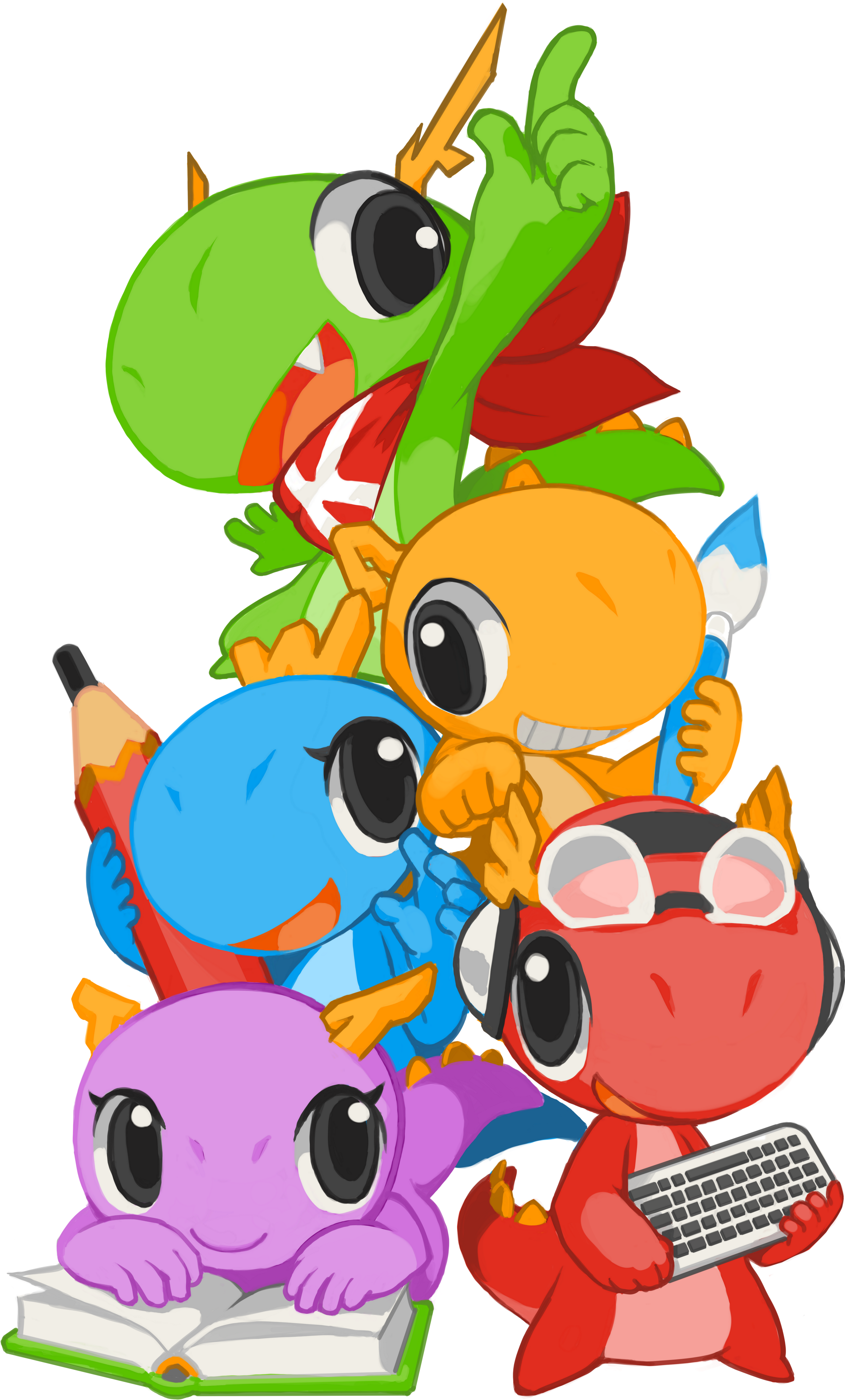 Konqi and his colorful friends.